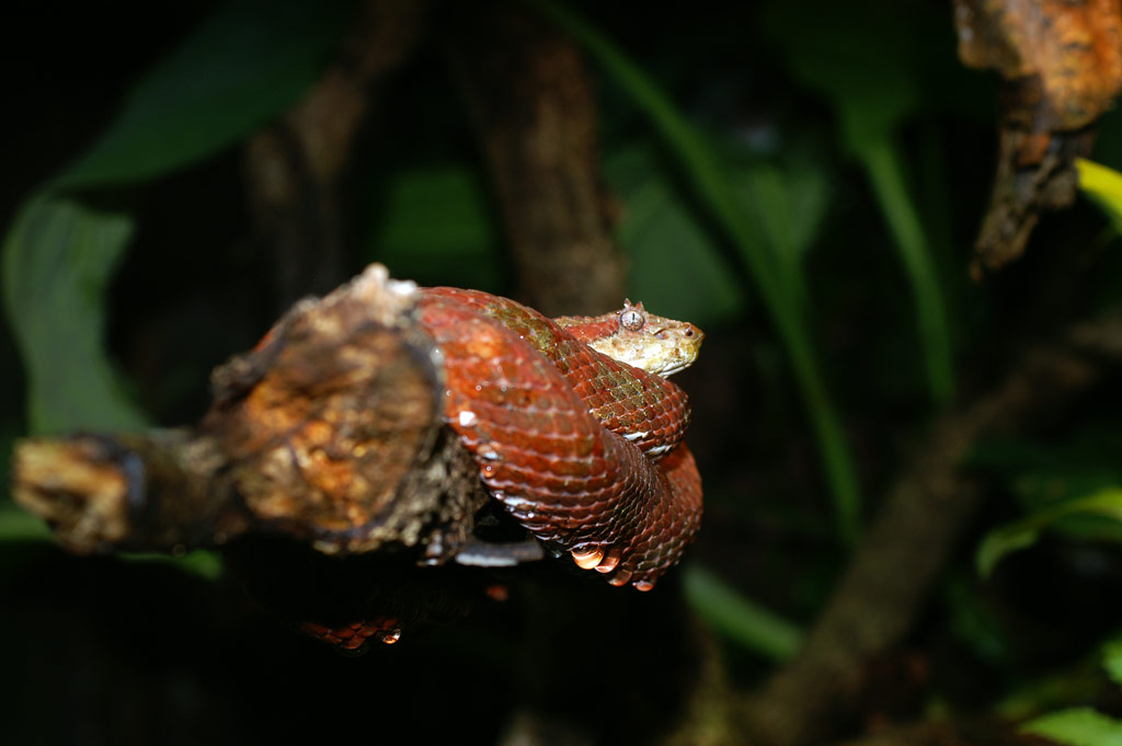 Eyelash Palmpitviper